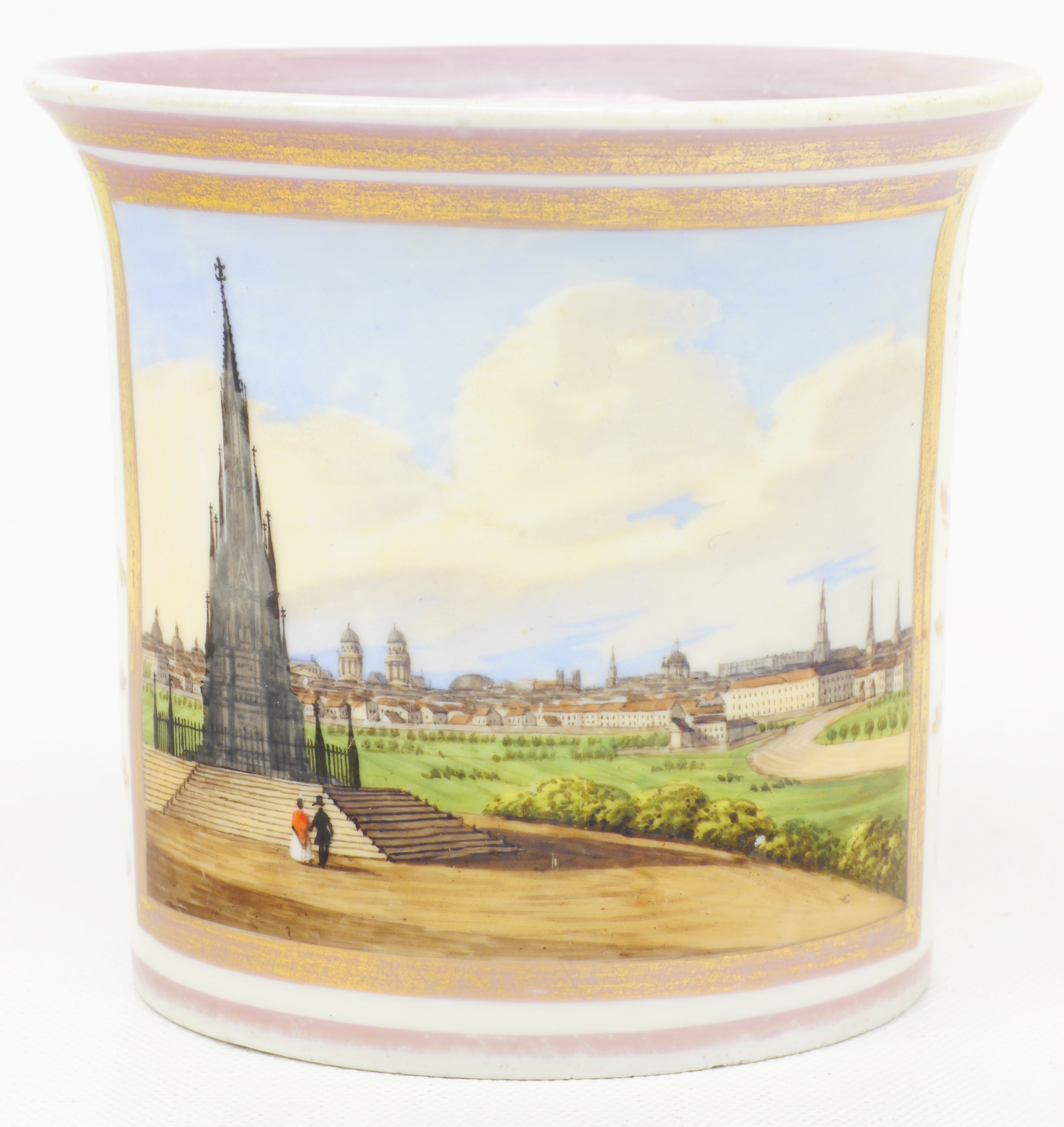 view of Berlin from Kreuzberg in Berlin by Schumann Porzellan Manufaktur Berlin (SPM), around 1860